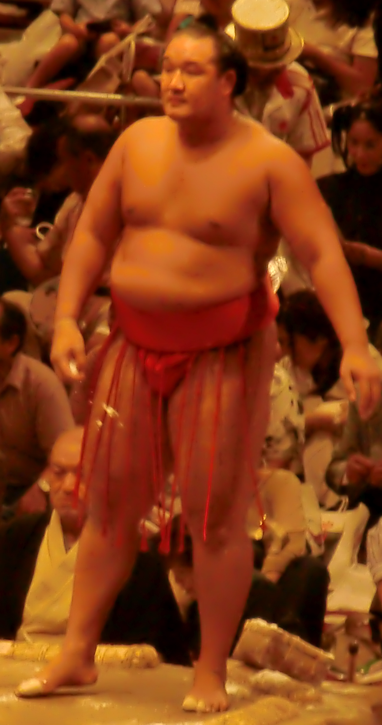 Photo taken by myself at recent tournament